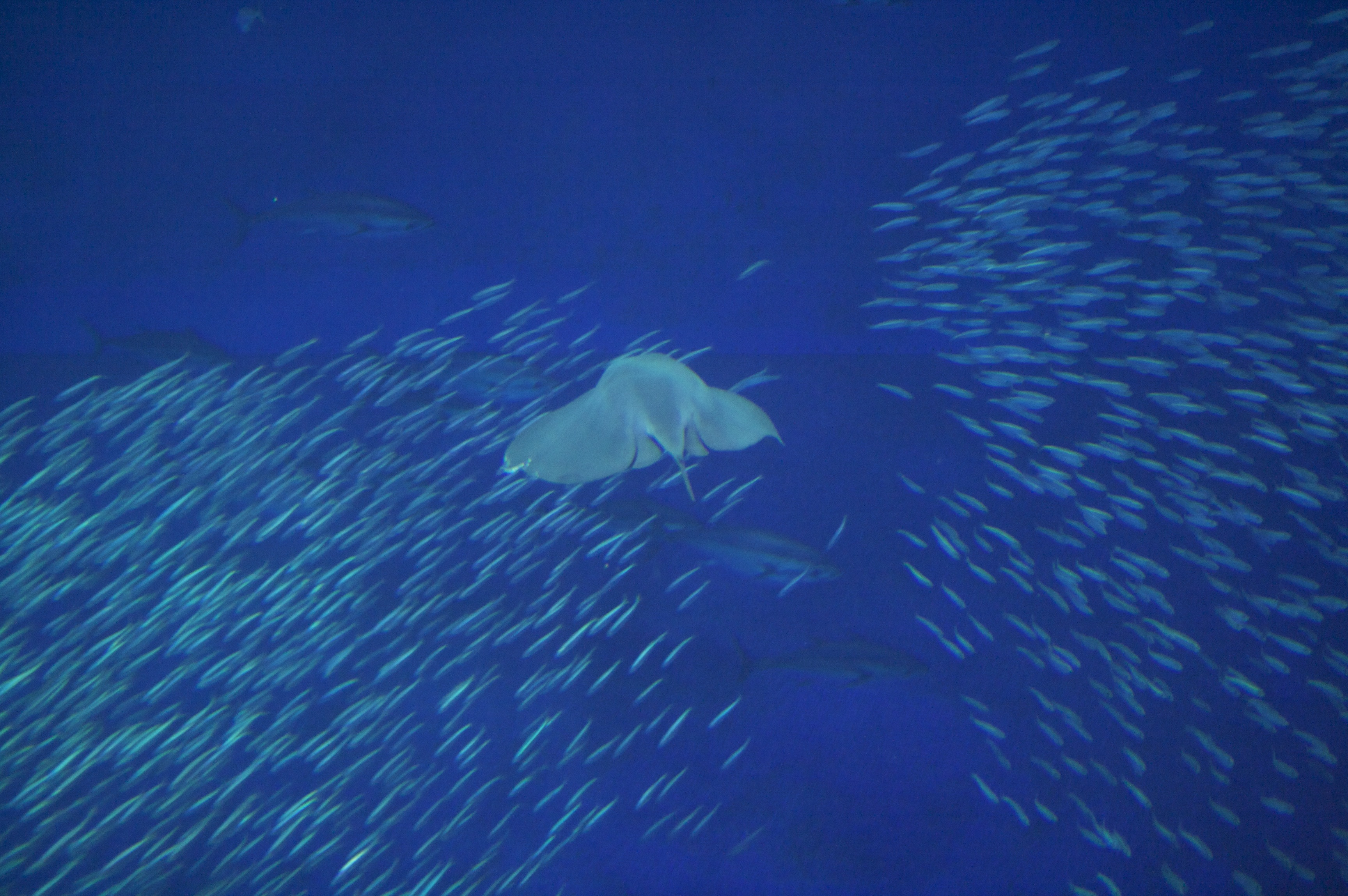 Pelagic stingray (Pteroplatytrygon violacea) parting sardines at the Monterey Bay Aquarium